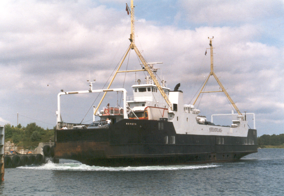 MF Nordhordland, buyild 1976.